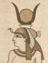 image of the Ancient Egyptian goddess Iusaaset, the grandmother of all of the deities, wearing her horned vulture crown with the solar disk in it